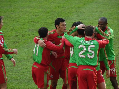 2007 Russian cup semifinal (FC Lokomotiv Moscow v.s. FC Spartak Moscow)